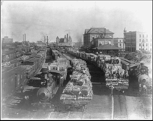 Photograph of cotton-laden rail cars at the Houston and Texas Central rail yard in Houston.